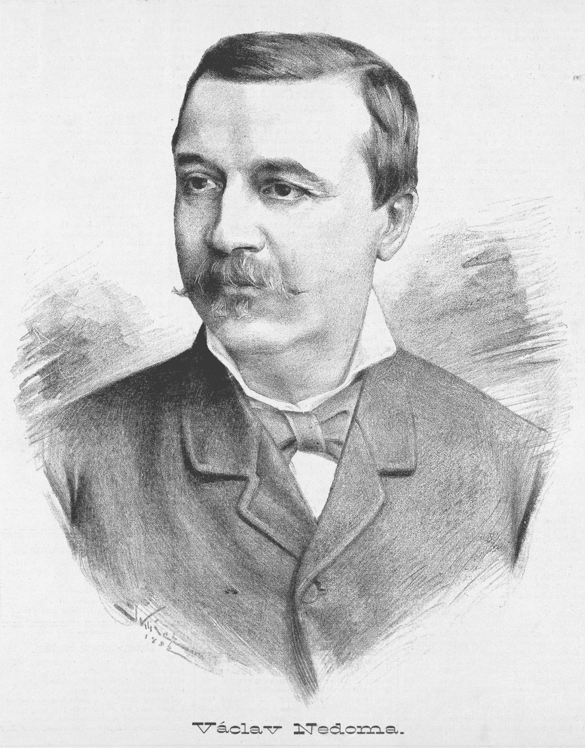 Portrait of Václav Nedoma (1836-1917), Czech journalist writing mainly in German language